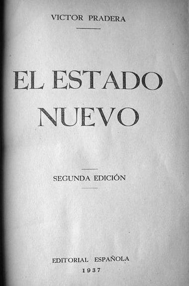 front cover of the original 1935 edition of El Estado Nuevo by Victor Pradera